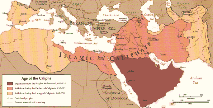 Age of the Caliphs